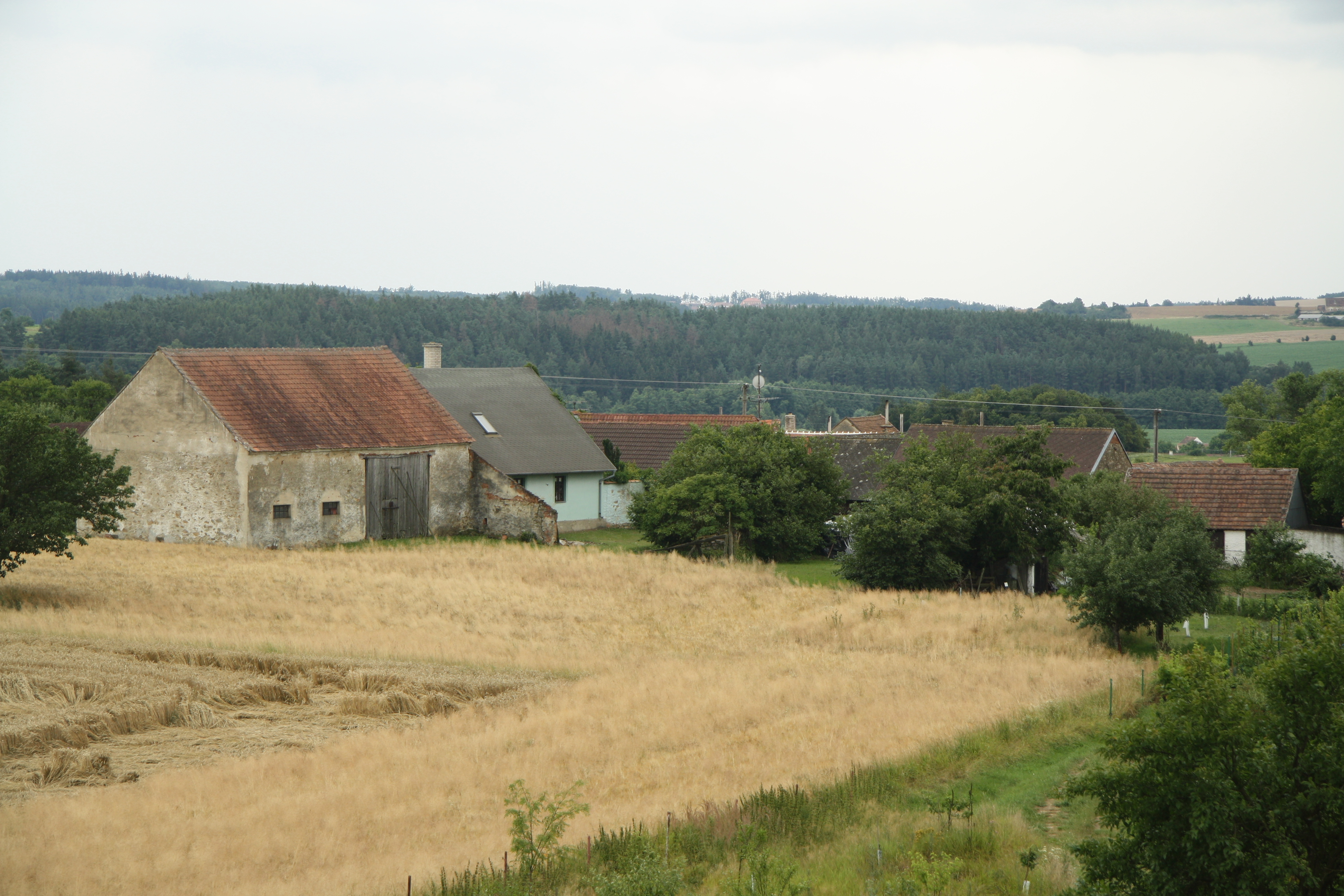 View of Jiřice u Moravských Budějovic from Anička viewtower, Znojmo District.